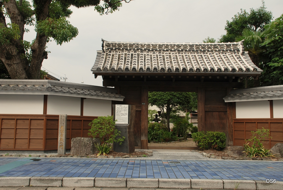 Gate of samurai residences in Mizugae, Saga city, Saga prefecture, Japan.